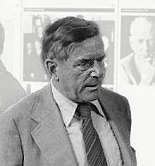 Title: Golo Mann 1978 People in the image: Golo Mann Additional information: Diese Fassung des Bildes empfiehlt sich aufgrund von Kontrast und leichter Überschärfe für sehr kleine Thumbnail-Bilder. Factual corrections and alternative descriptions are encouraged separately from the original description. Additionally errors can be reported at this page to inform the Bundesarchiv. Original historic description: Golo Mann 1978, Wissenschaftliche Tagung der Stiftung "Konrad-Adenauer-Haus" im Konrad-Adenauer-Haus, Rhöndorf